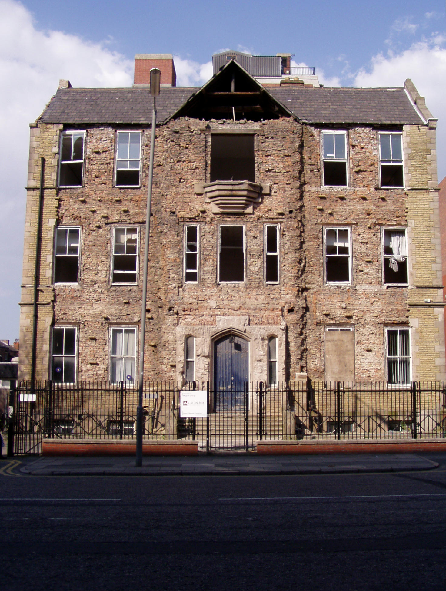 Josephine Butler Building in Liverpool after Maghull Group removed cladding